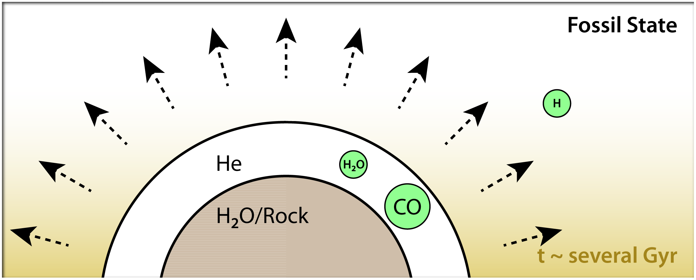 PIA19345: How to Make a Helium Atmosphere – fossil state NASA's Spitzer Space Telescope observed a proposed helium planet, GJ 436b. This diagram illustrates how hypothetical helium atmospheres might form. These would be on planets about the mass of Neptune, or smaller, which orbit tightly to their stars, whipping around in just days. They are thought to have cores of water or rock, surrounded by thick atmospheres of gas. Both water and methane consist in part of hydrogen. Eventually, billions of years later (a "Gyr" equals one billion years), the abundances of the water and methane would be greatly reduced. Since hydrogen would not be abundant, the carbon would be forced to pair with oxygen, forming carbon monoxide. Helium Atmospheres on Warm Neptunes Spitzer Space Telescope For more information about Spitzer, visit and